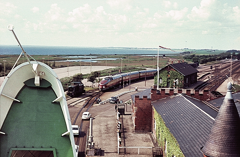 In the summer of 1964 the East-German passenger ferry "Warnemünde" opens front cargo hatch in its destination port Gedser (Falster). Passenger vehicles and the Express train Berlin-Kopenhagen leave the ferry.